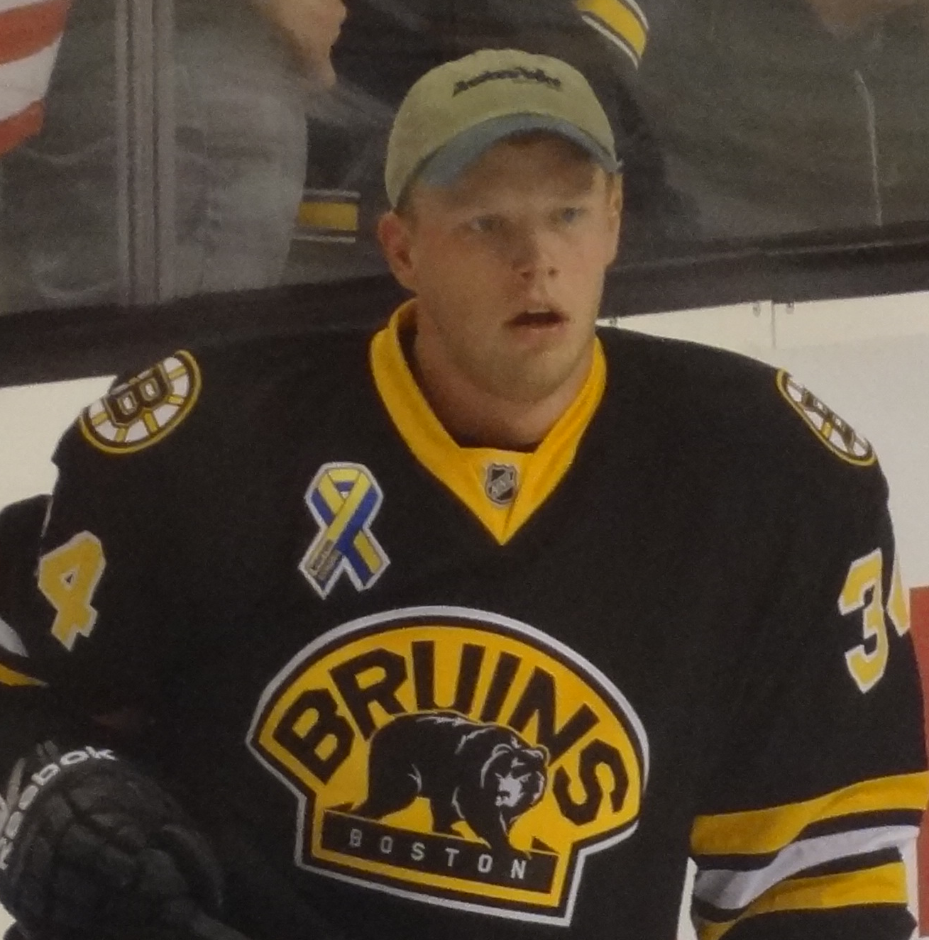 Carl Soderberg during warm-ups at TD Garden.